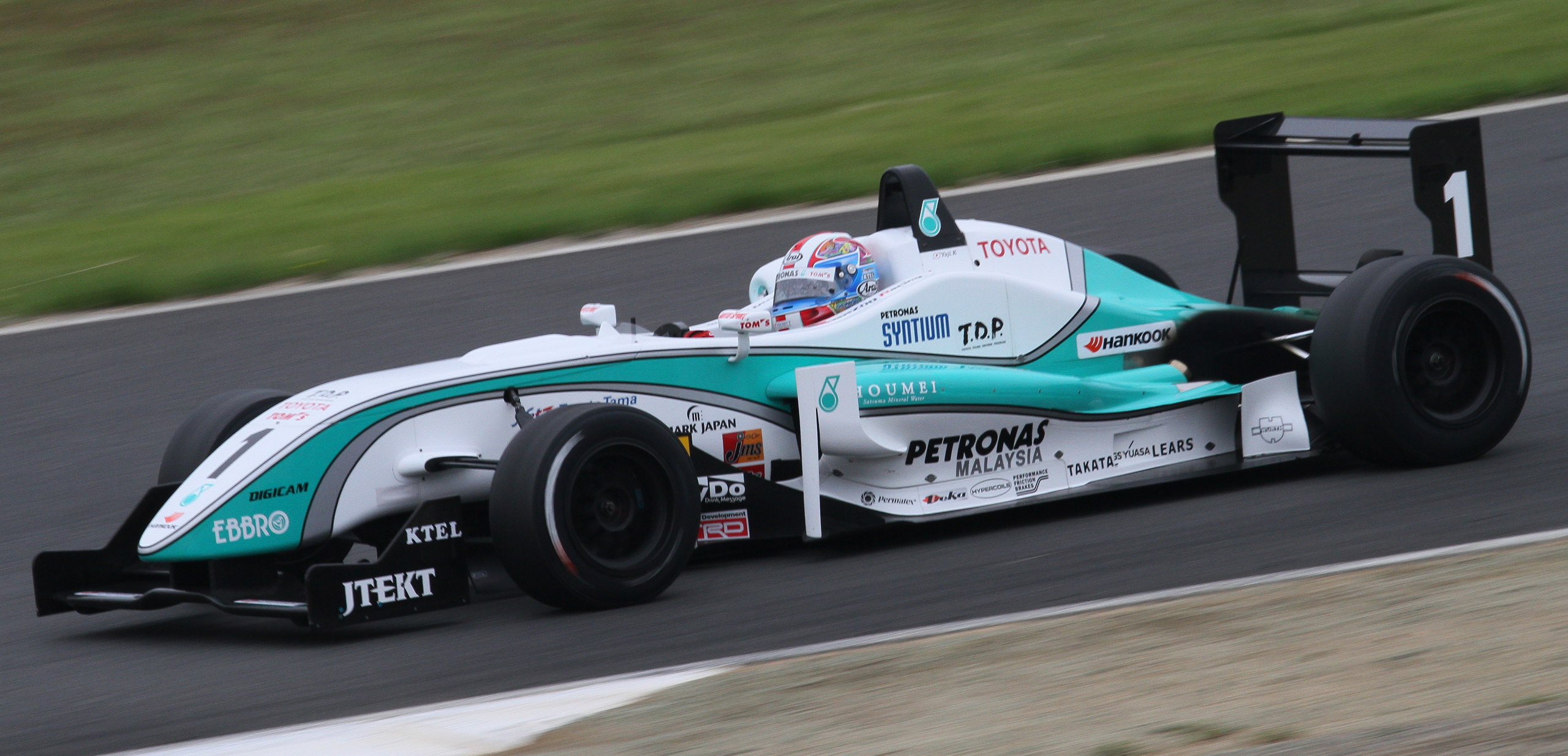 All-Japan Formula Three 2010 Motegi round: Yuji Kunimoto (Petronas Team TOM'S) leading the Race 2 on Sunday.